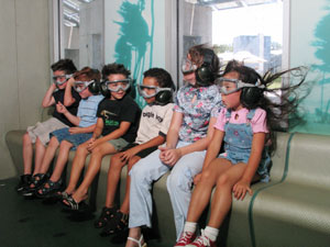 Experiment of hurricane effects